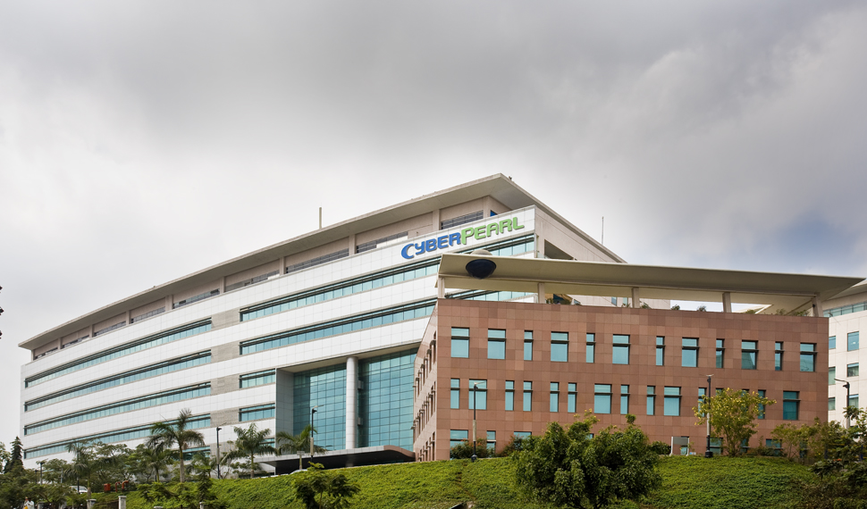 CyberPearl Building view